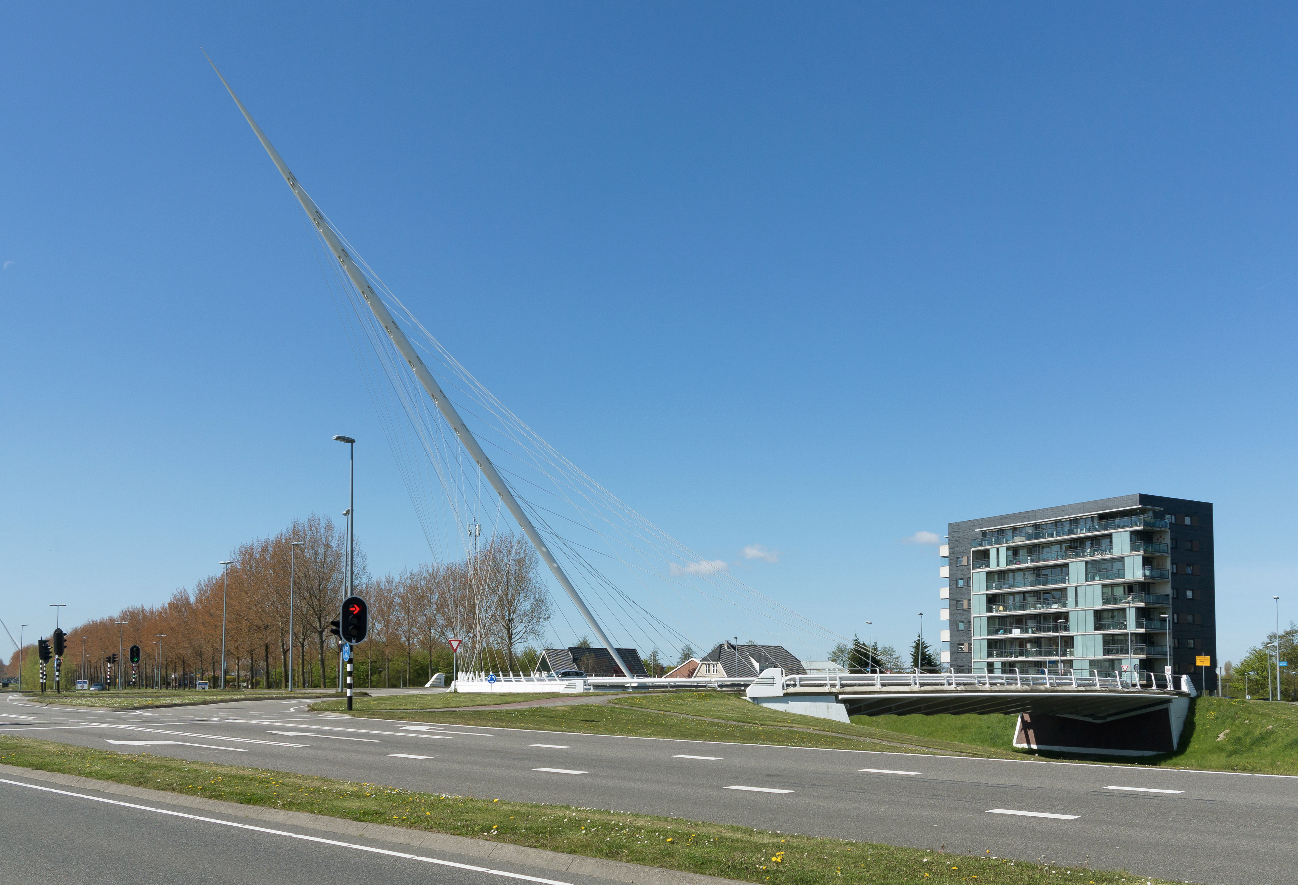 Hoofddorp, Calatrava bridge de Luit